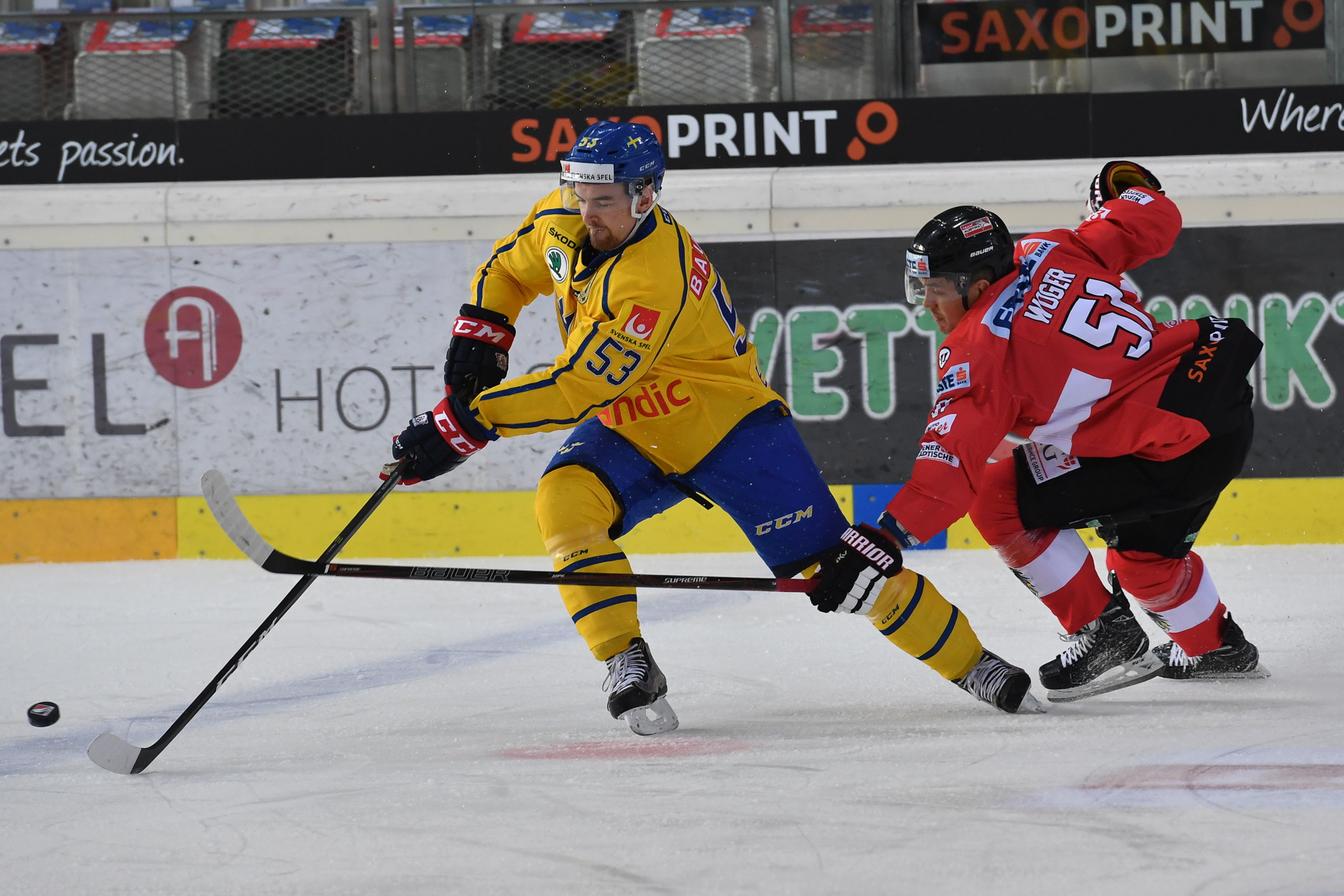 6/4/2017, Vienna, Austria, Sport, Ice Hockey, Friendly match Austria vs Sweden.